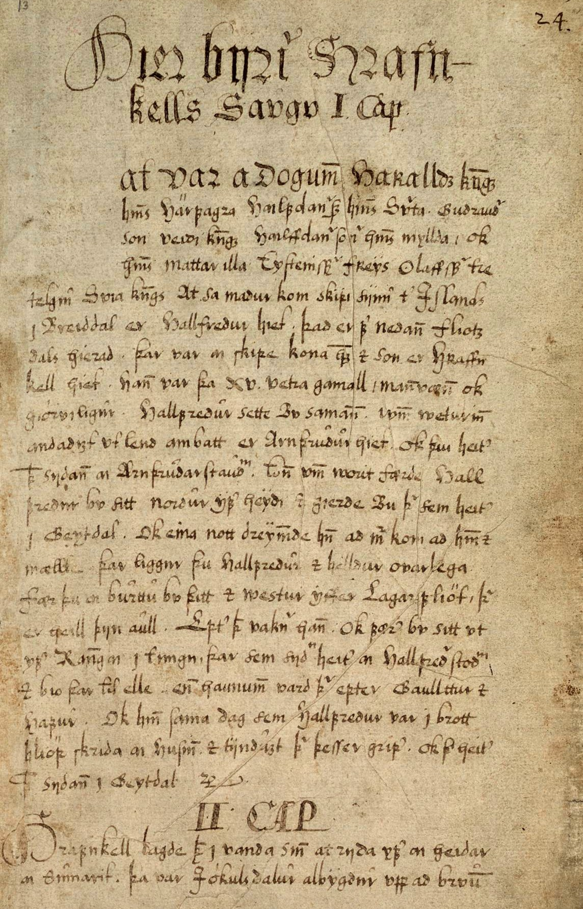 The first page of Hrafnkels saga From the 17th century Icelandic manuscript AM 156 fol now in the care of the Árni Magnússon Institute in Iceland. (Første side fra Sagaen om Ramnkjell Frøysgode)